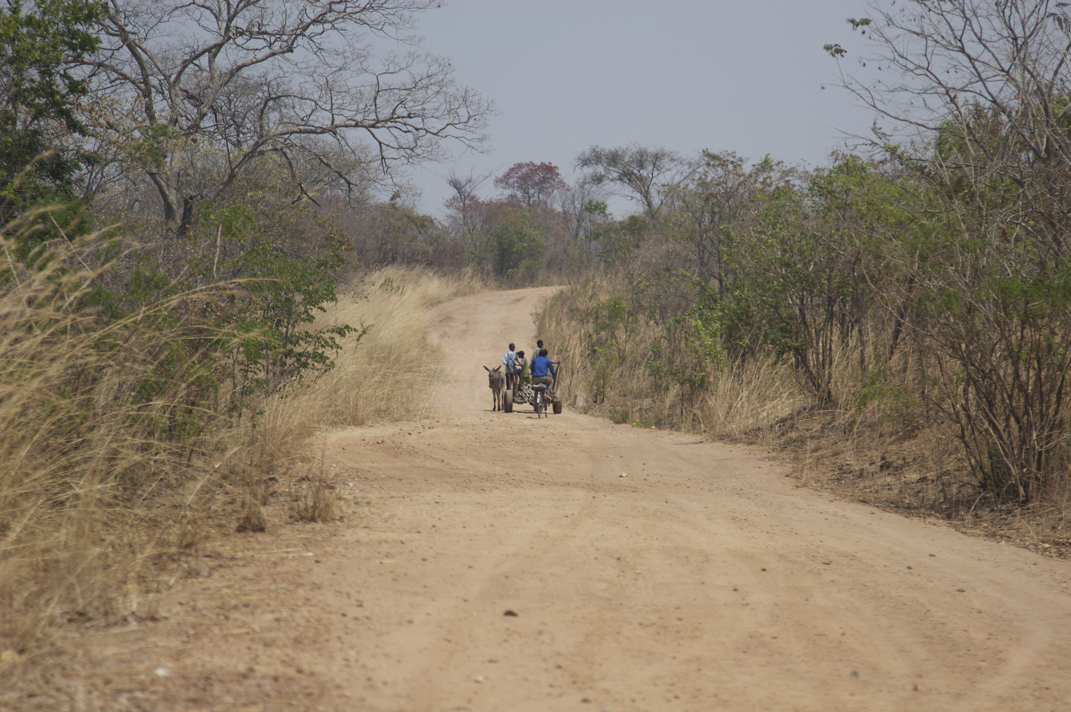 Road from Petauke, Zambia